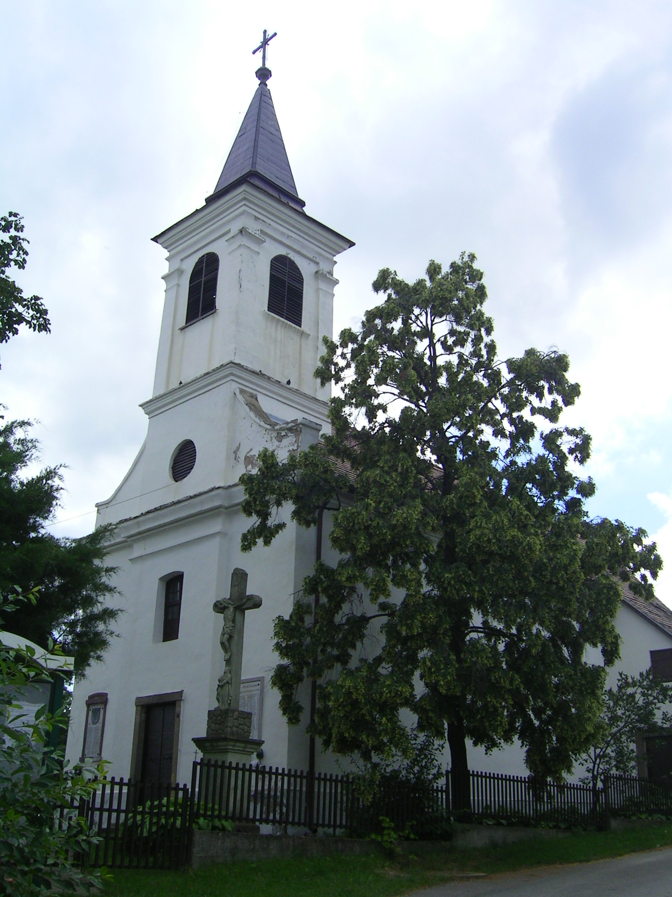 Roman catholic church in Geresdlak, Hungary